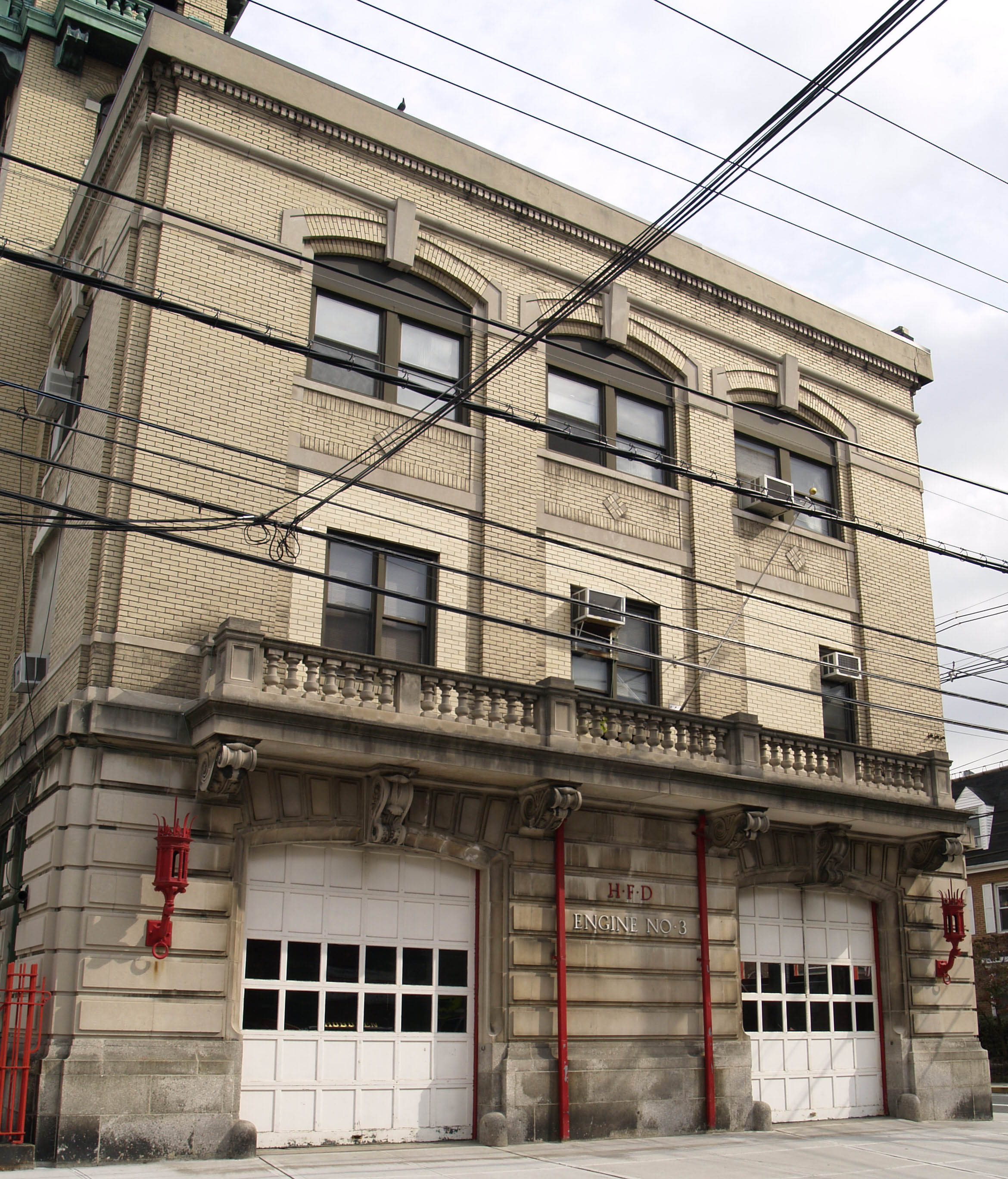 Engine Company No. 3